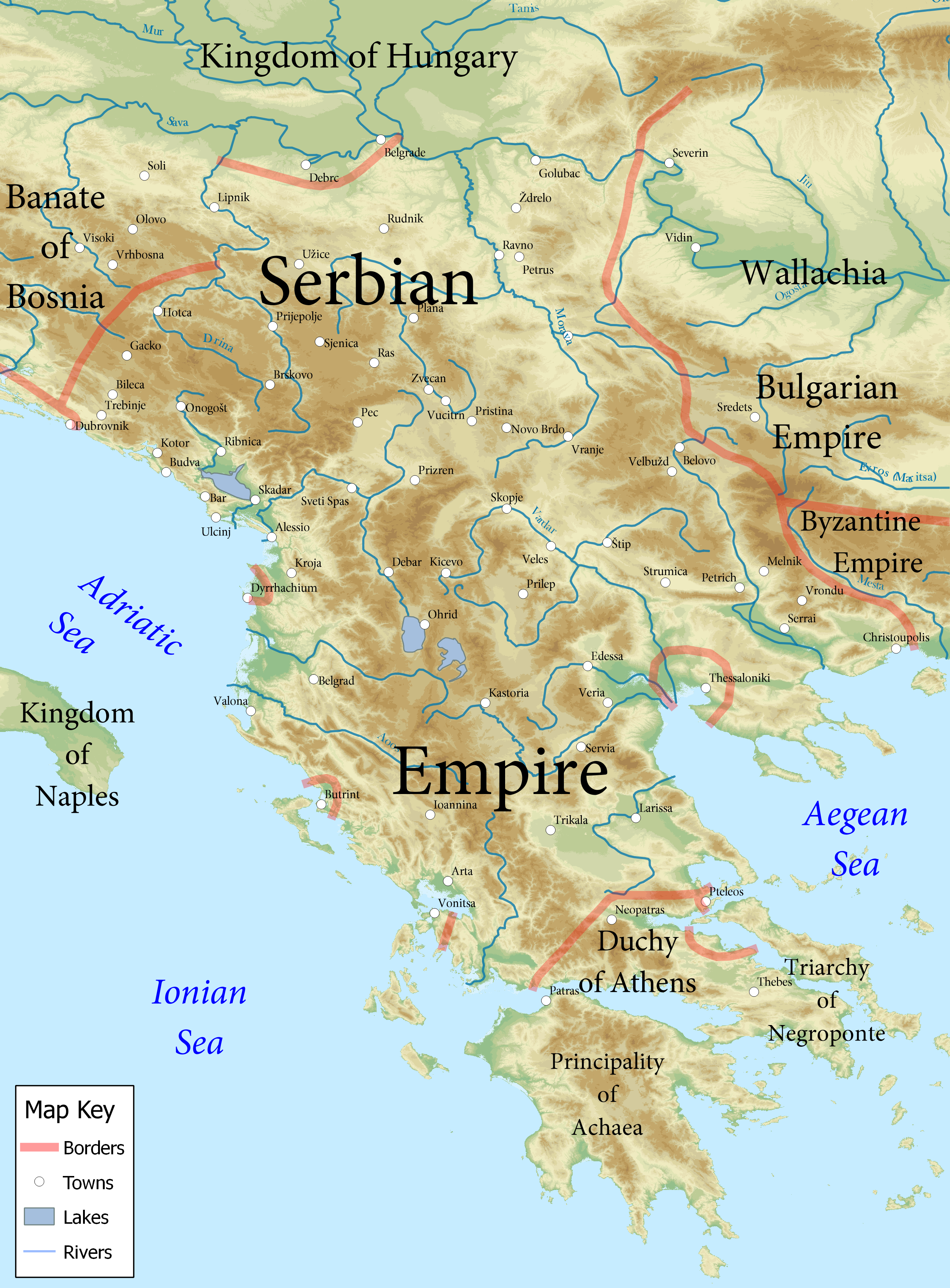 Serbian Empire around 1355 CE. Sources: Topography: SRTM90 Borders: File:Serbian_Empire.png Rivers: Towns: Curated list Lakes: Ocean: Rendering: QGIS 2.0.1 Projection: WGS84 SVG-Version